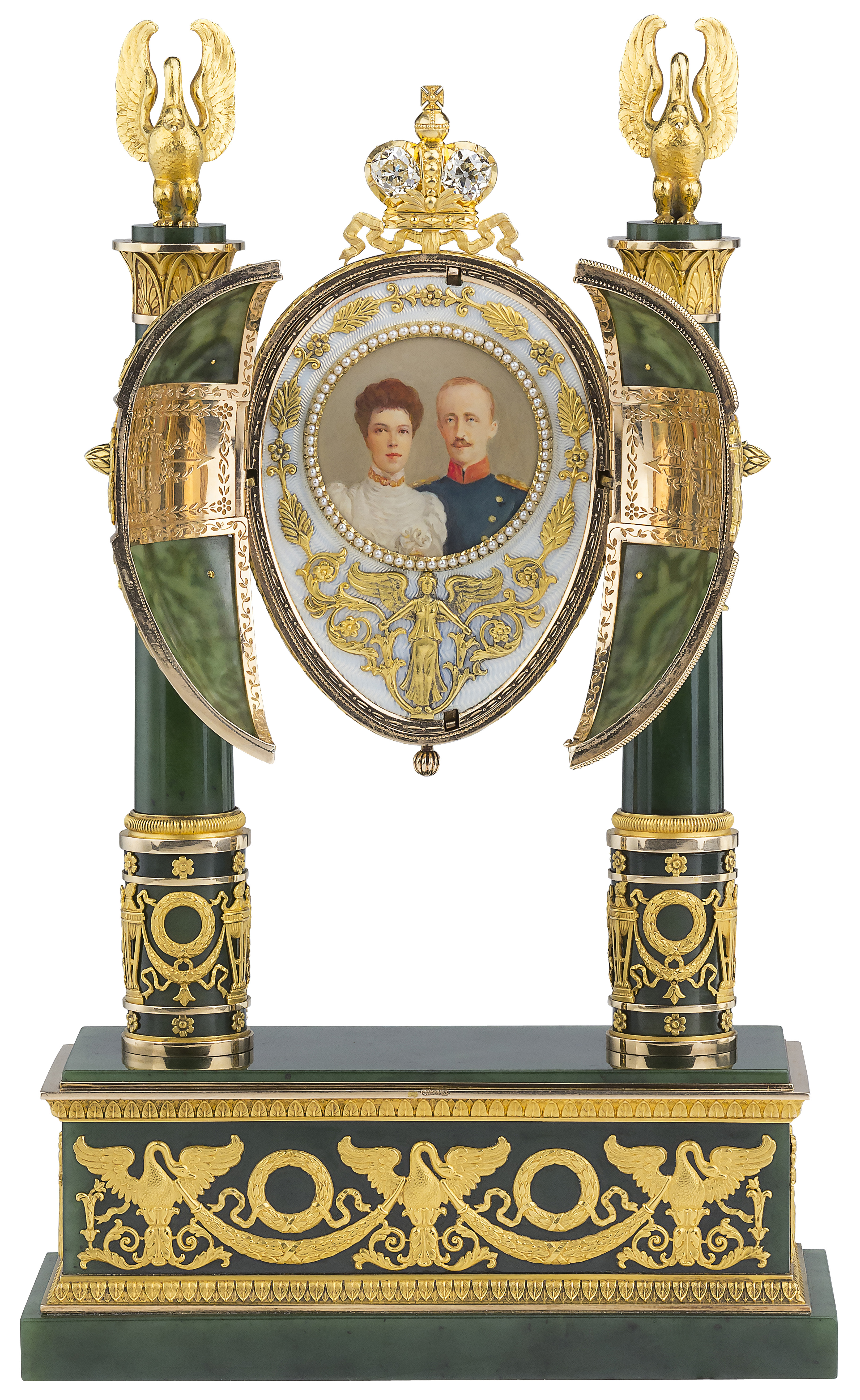 open egg